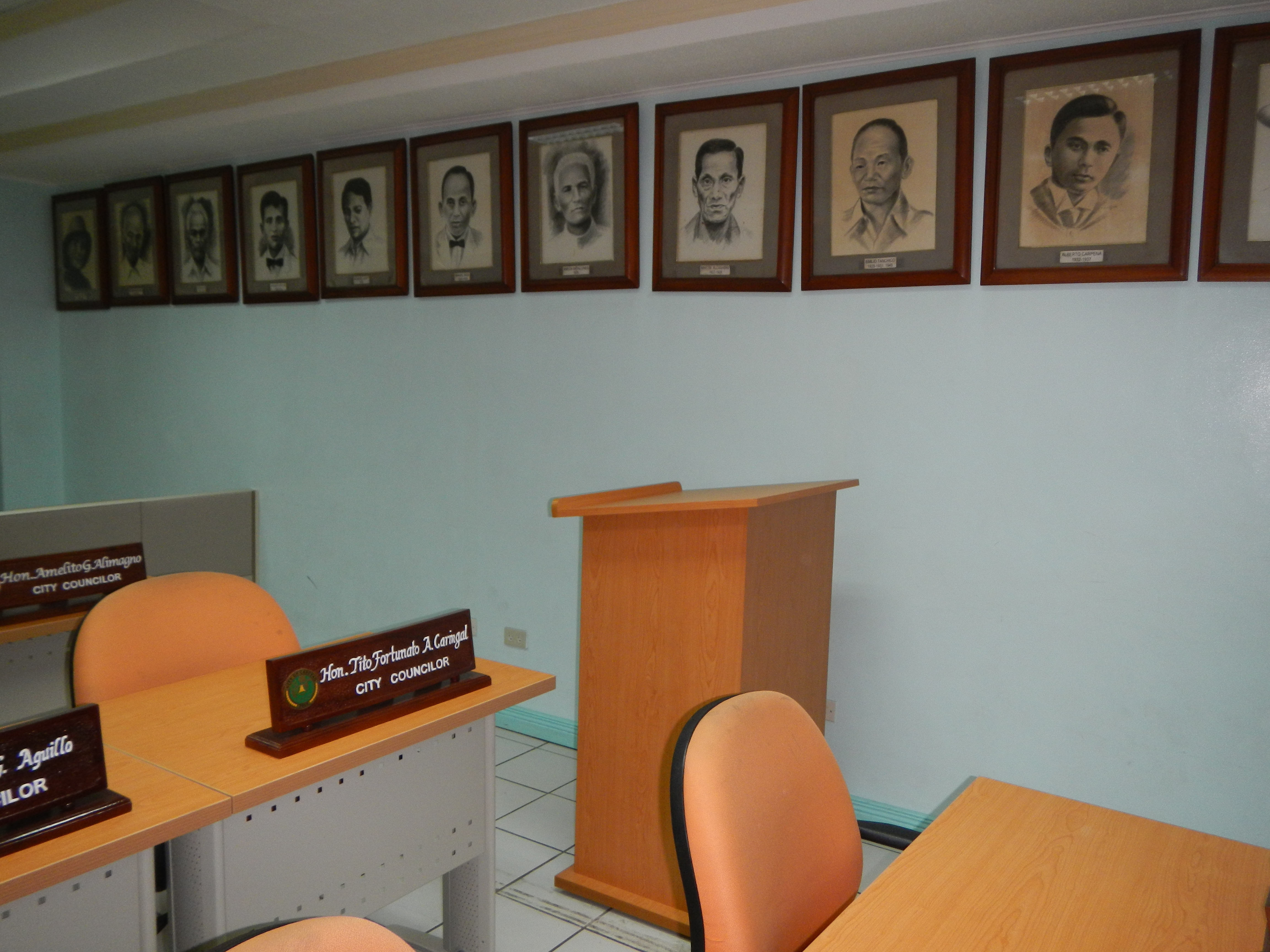 UploadWizard photos --- (general description) of (landmarks, heritage, culture, comprehensive, photography) of -- the -- Cabuyao City Hall[1] located in Brgy. Sala, Cabuyao [2] Cabuyao City, Laguna Coordinates:14°16'17"N 121°7'27"E homes the Cabuyao City Hall, Cabuyao City Police Station, Cabuyao City Jail and Cabuyao Fire Station. --- Cabuyao[3] (City of Cabuyao is a first class city in the western portion of Laguna, Philippines - 2010 Census, population of 248,436 inhabitants, area: 43.3 km²Website Cabuyao, Laguna, is newest city President Benigno Aquino, on May 16, 2012, signed the executive order directing the conversion of Cabuyao to a component city under Republic Act No. 10163 -[4] Coordinates: 14°15'0"N 121°6'20"E).